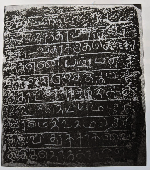 Siva Devale 2 Tamil inscription 1